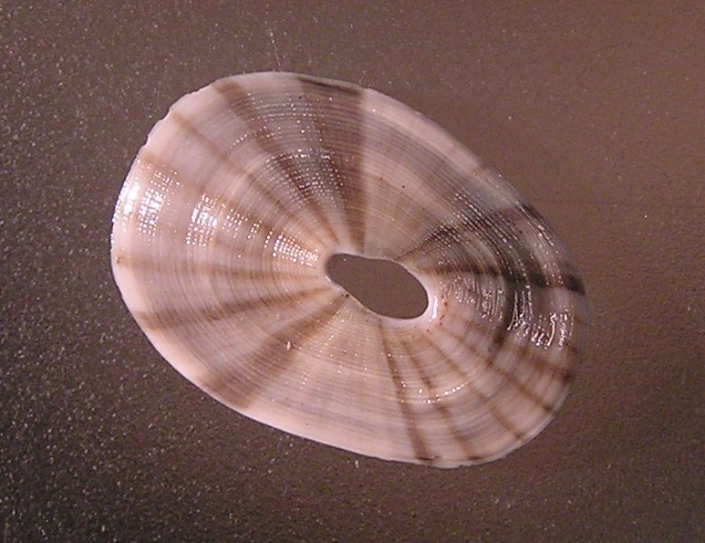 Amblychilepas javanicensis J. B. Lamarck, 1822, a keyhole limpet from the family Fissurellidae; South Australia